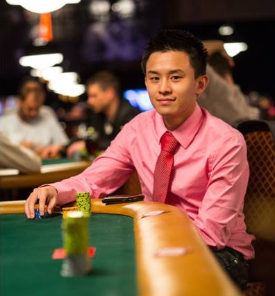 Benyu2013wsop